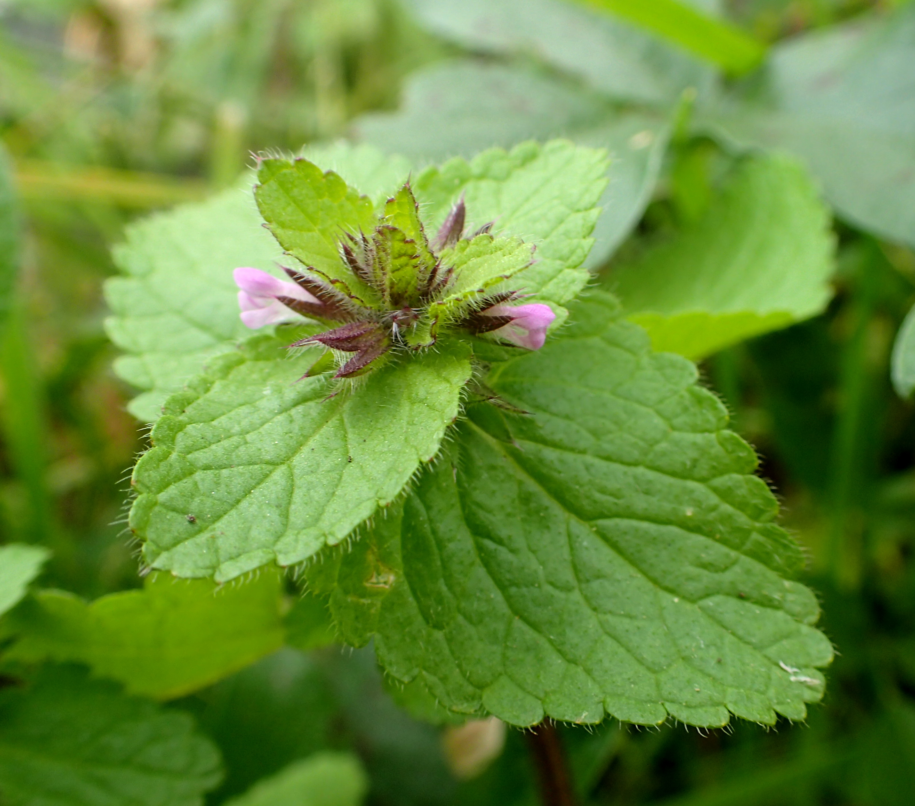 Stachys arvensis in Los Carrizales, Tenerife, Canary Islands